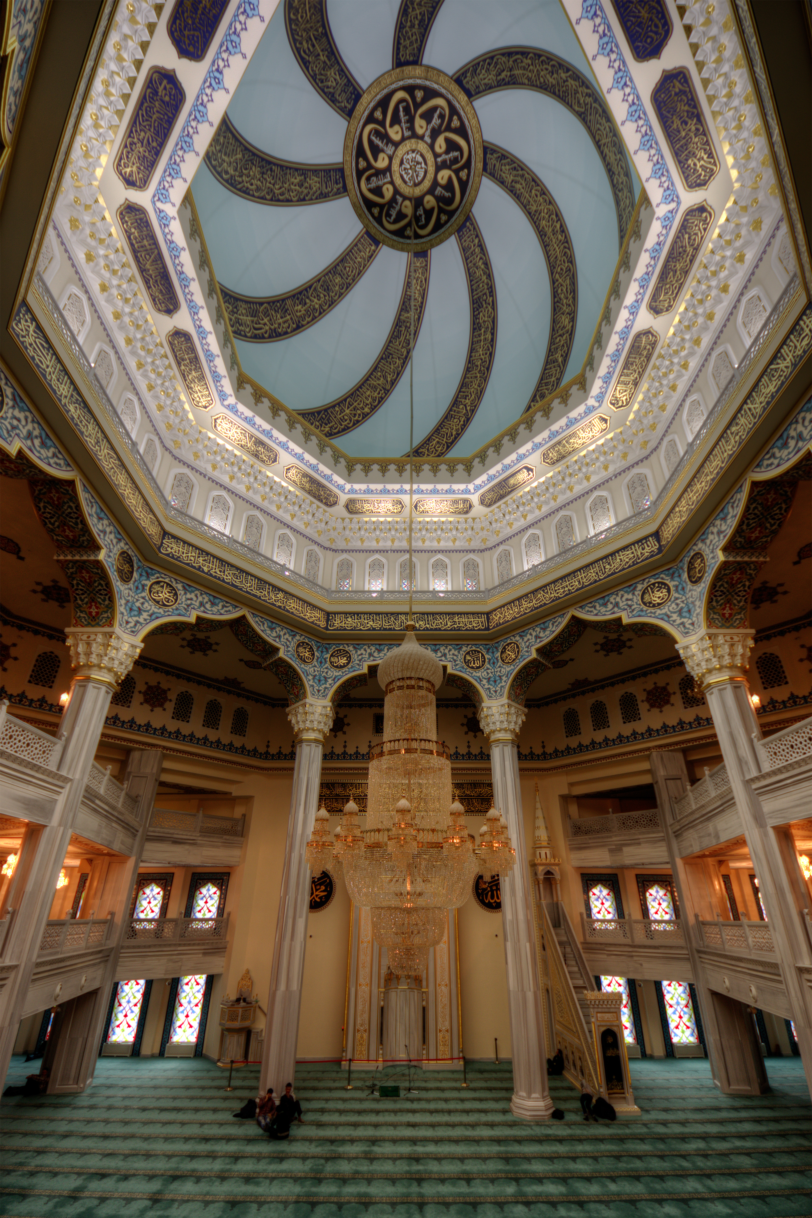 Moscow Cathedral Mosque (new), interior